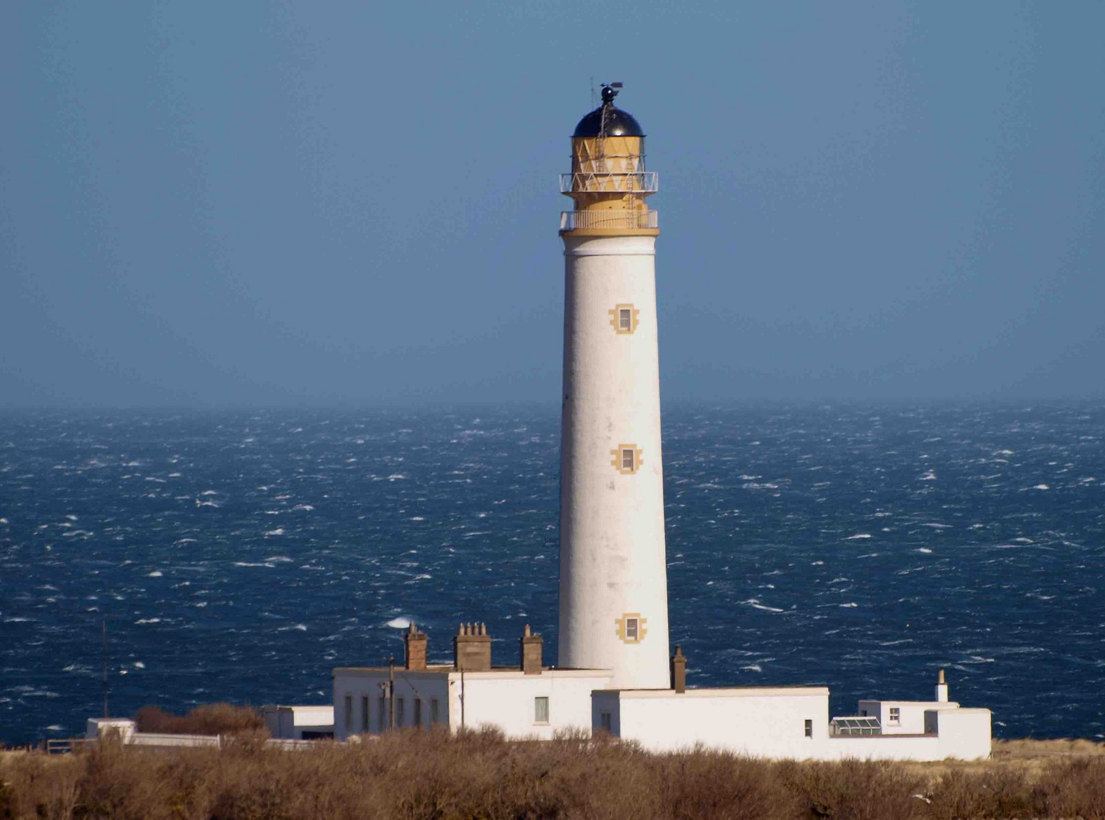 Barns Ness lighthouse Light established 1901 discontinued 27th October 2005, height 36m.